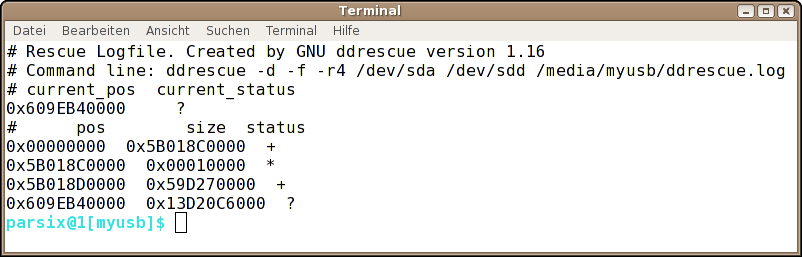 Logfile contents produced by ddrescue version 1.16.